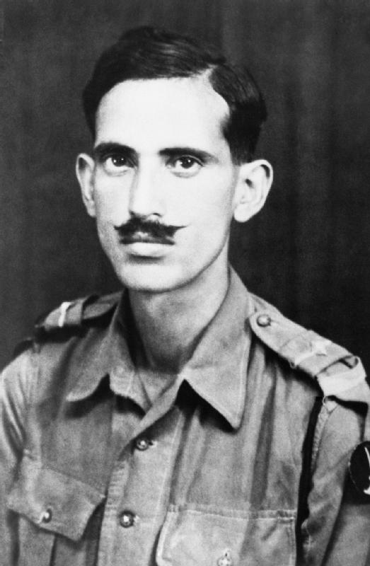 Portrait of Prakash Singh, awarded the Victoria Cross: Burma, 16/17 February 1945.